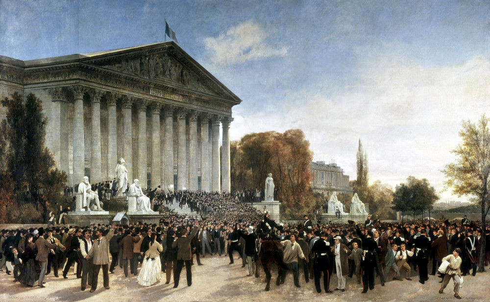 The Palais du Corps Législatif after the Last Sitting 1870